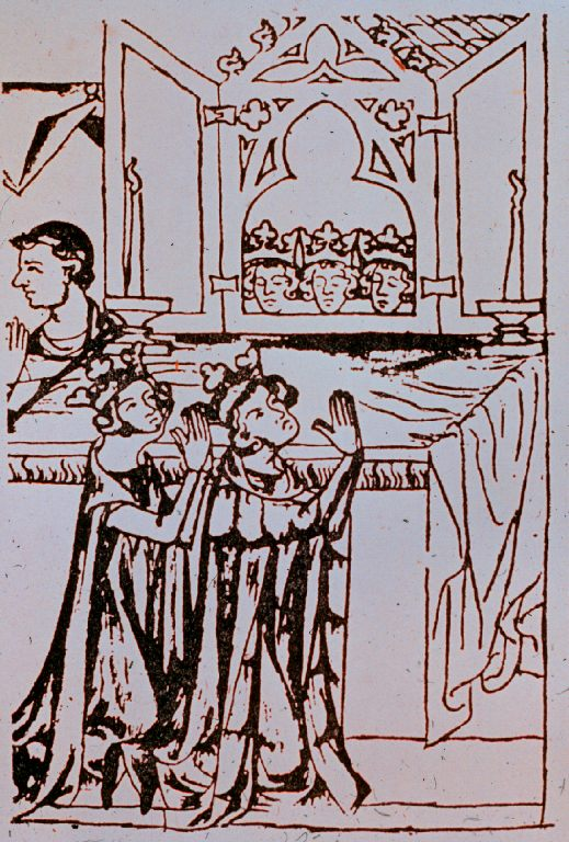 Medieval drawing of the opened shrine of the three magi in Cologne Cathedral [Koblenz Staatsarchiv]